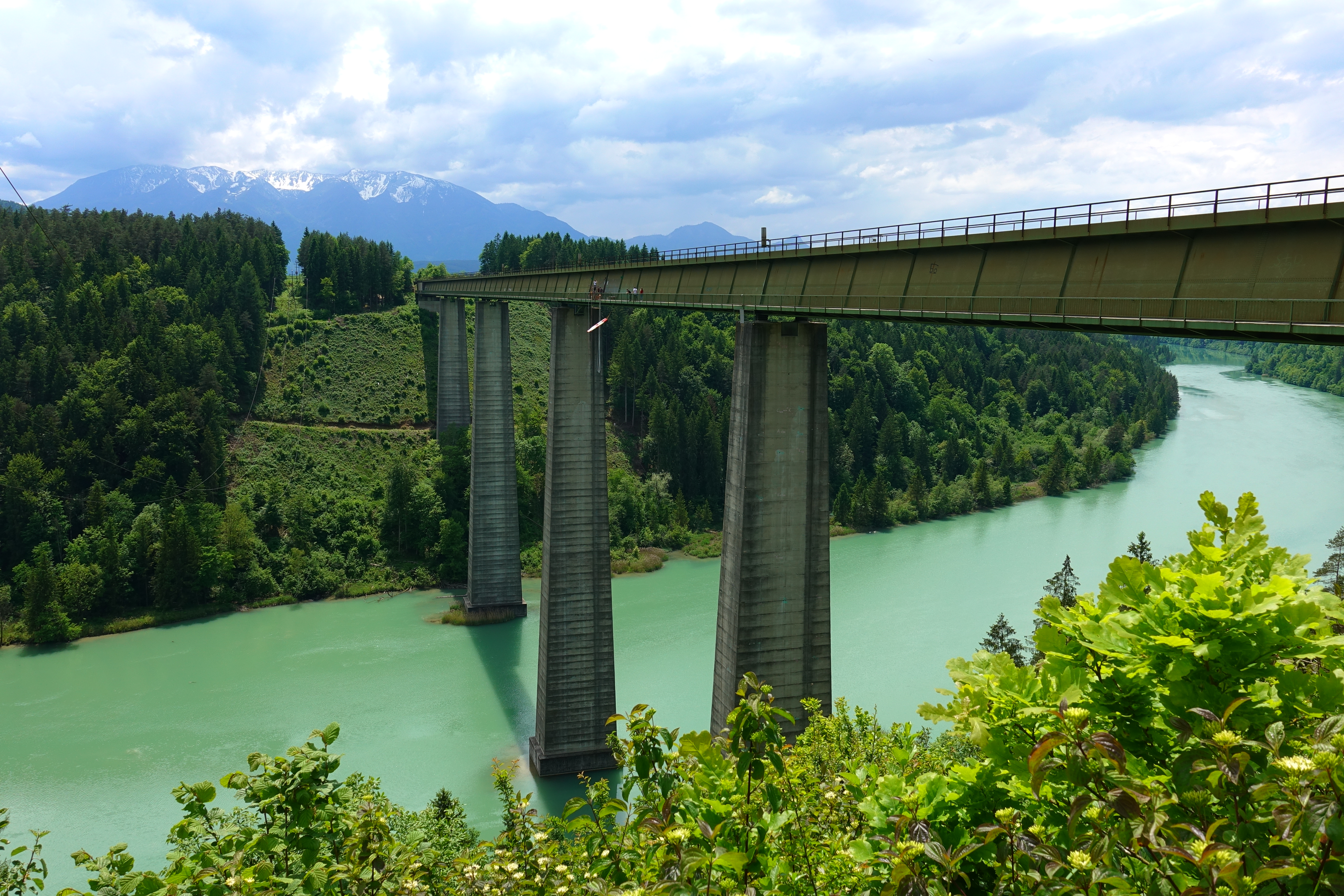 Jauntal Bridge Kärnten Österreich